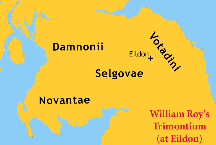 People's of southern Scotland mentioned by Ptolemy, located according to William Roy's Military Antiquities of the Romans in Britain (1793).